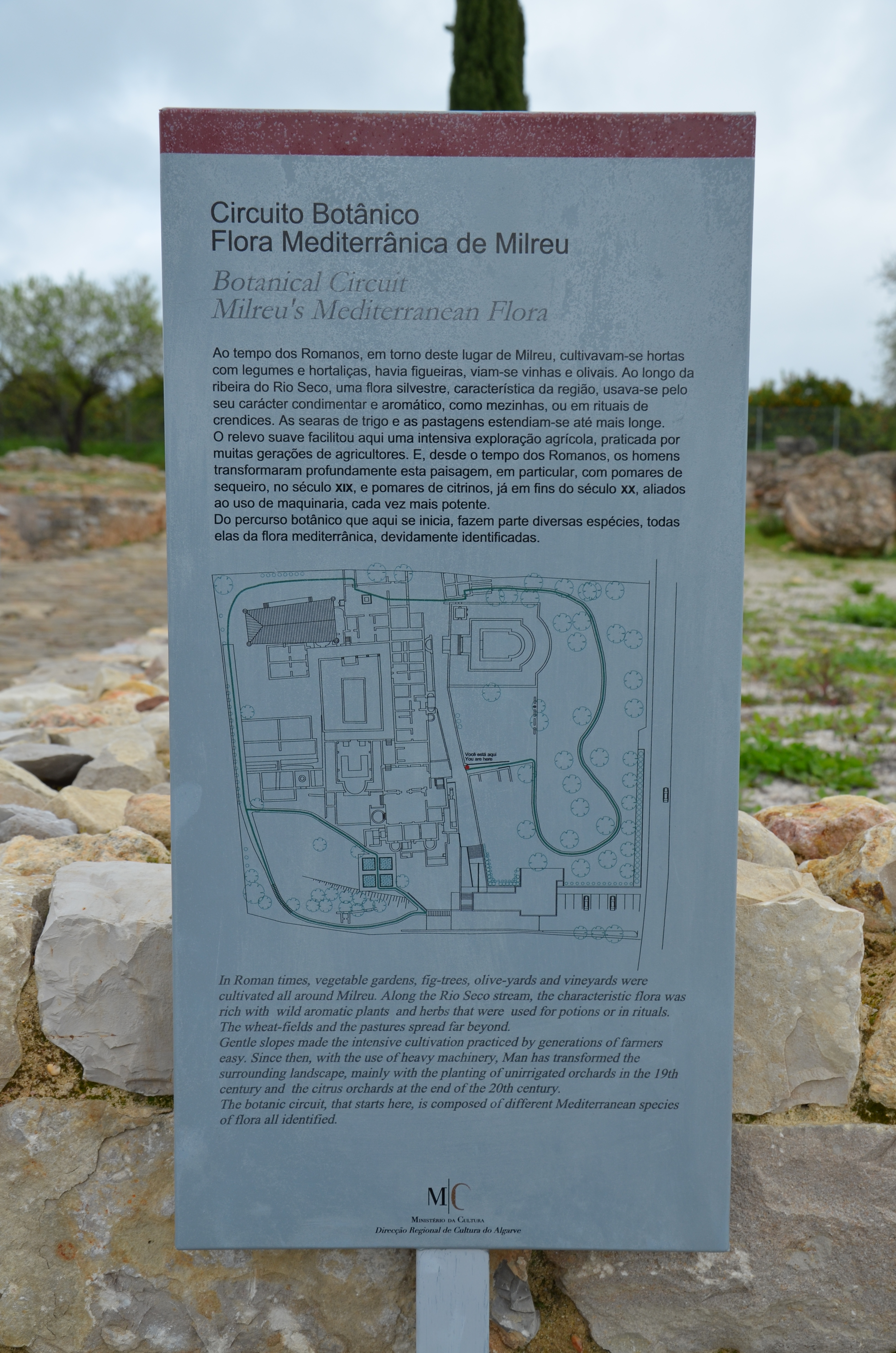 Information board at the Milreu roman Ruins, in Portugal, showing the botanical circuit.